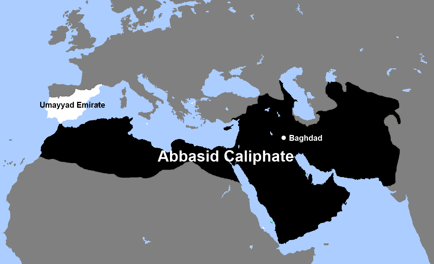 A map of the Abbasid Caliphate in 755, after the Abbasid Revolution and the escape of Abd al-Rahman I to al-Andalus, where he established an Umayyad state in 755.